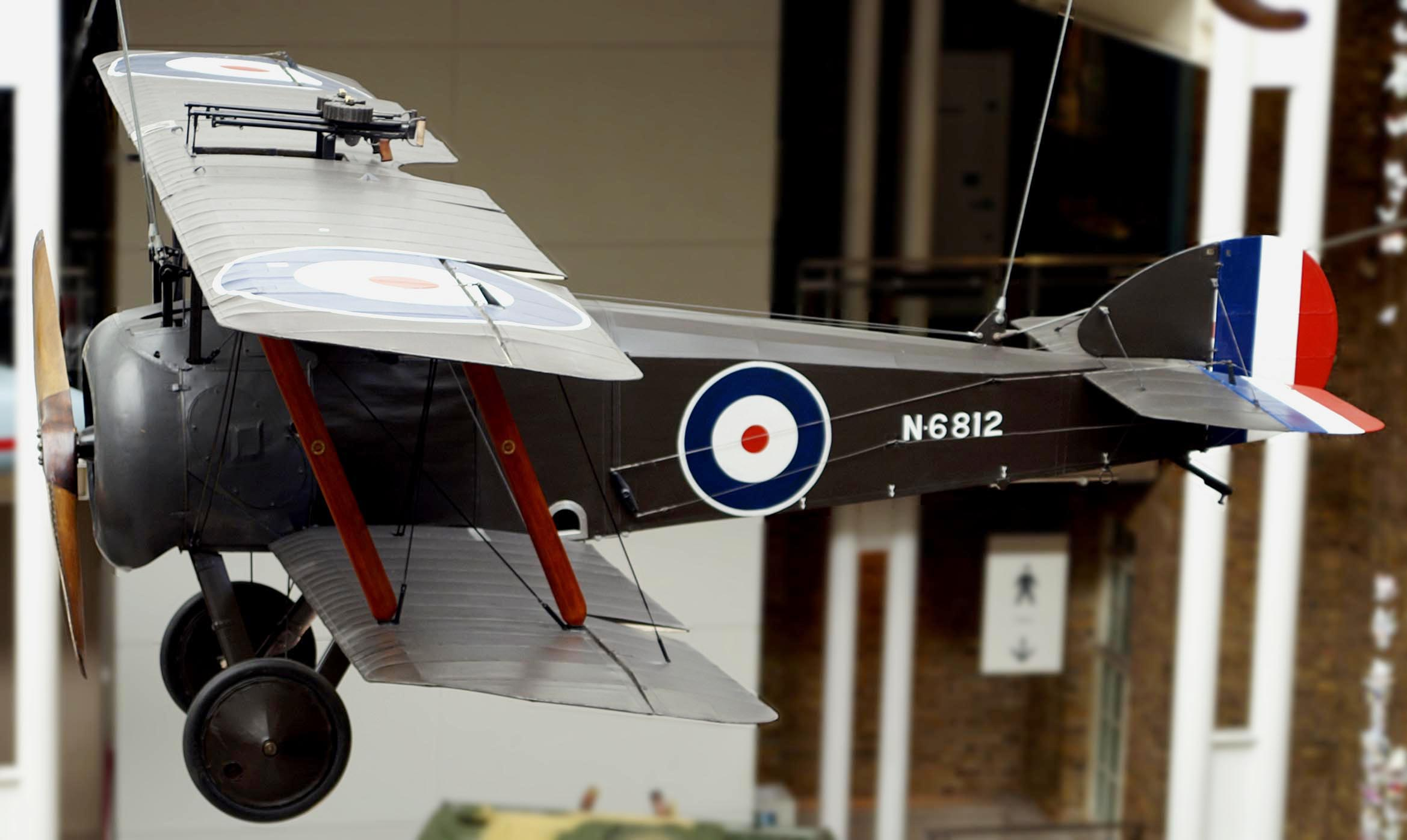 A Sopwith Camel 2F1 bi-plane at the Imperial War Museum in London. This version is the navy version, the 2F1 mounts a pair mounted of Lewis .303 machine guns on top of the upper wing, firing above the propeller disc. The aircraft pictured was flown by Flight Sub-Lieutenant Stuart D Culley, from a barge towed by the destroyer HMS Redoubt on 11th August 1918 when he shot down German Zeppelins L.53, the last to fall during the war. See also : File:SopwithCamelTopsideIWM2006.jpg : view of cockpit area from above rear File:Lewis Gun Camel.jpg top wing viewed from above right File:Sopwith Camel.jpg from right front above